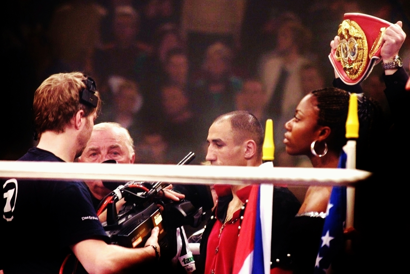 Arthur Abraham in Sparkassen-Arena in 2008.